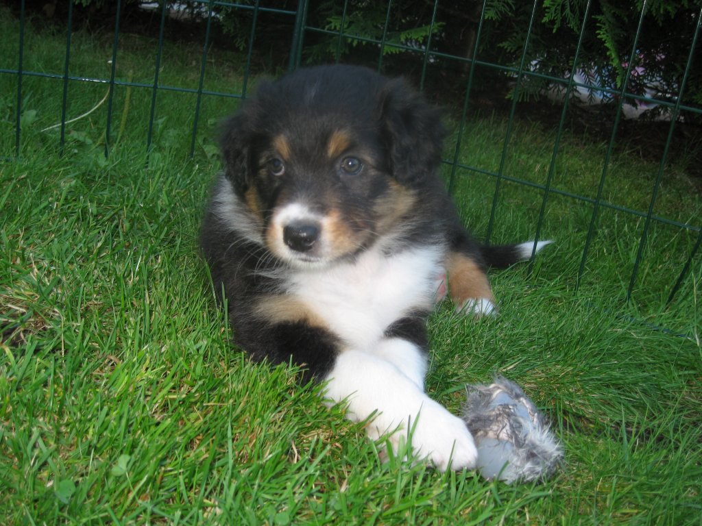 Australian shepherd puppy tricolor